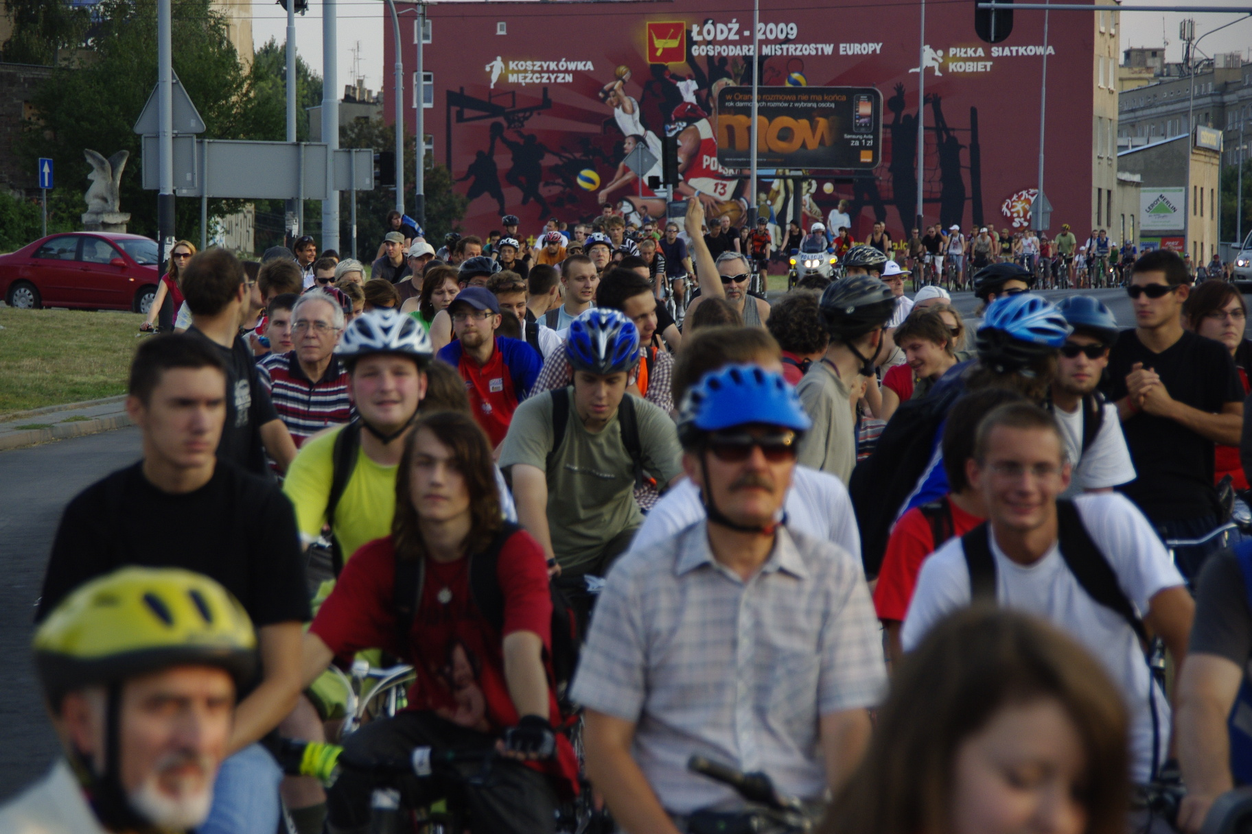 Critical Mass in Łódź